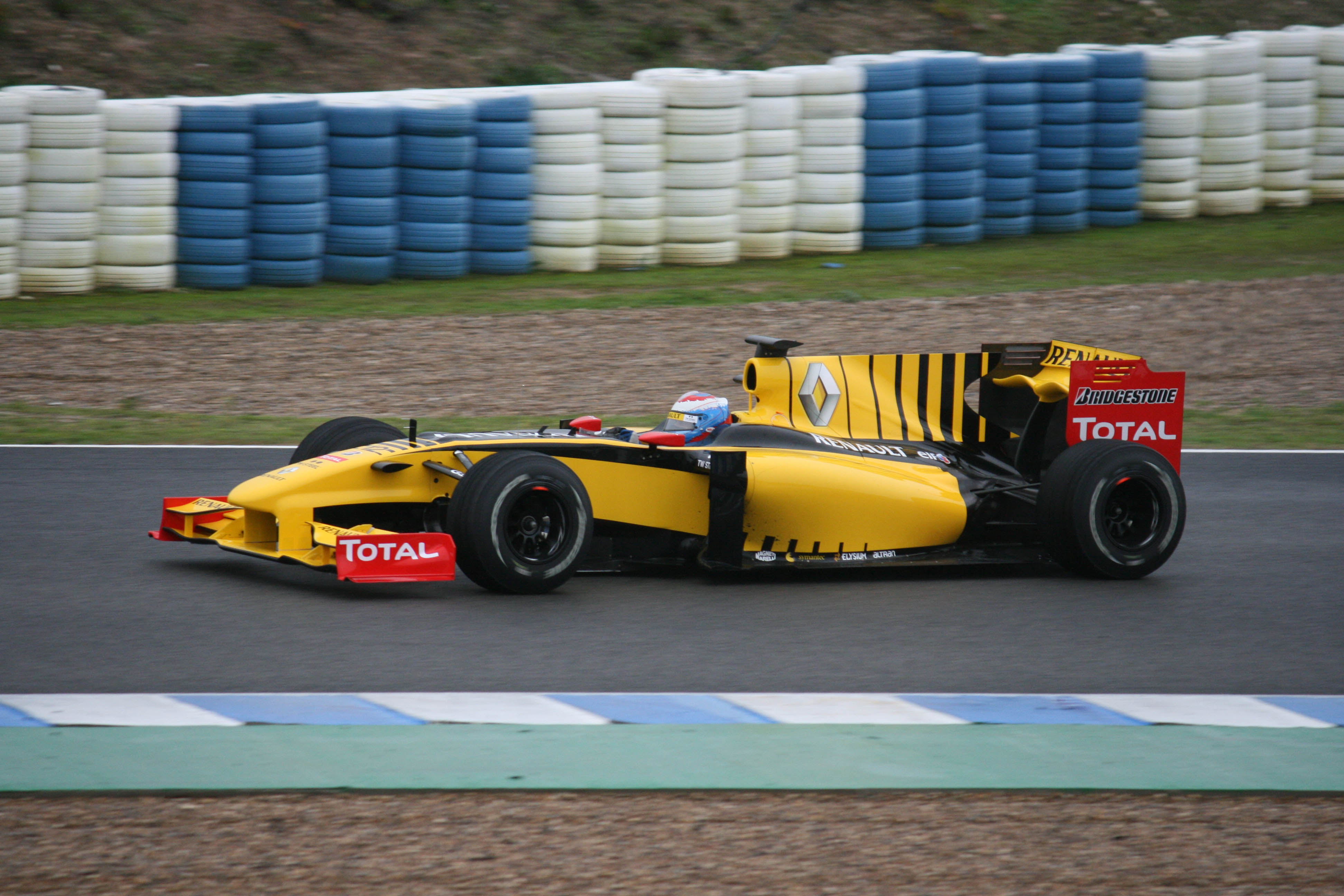 Tests Renault R30 driven by Vitaly Petrov at Jerez 12 02 2010